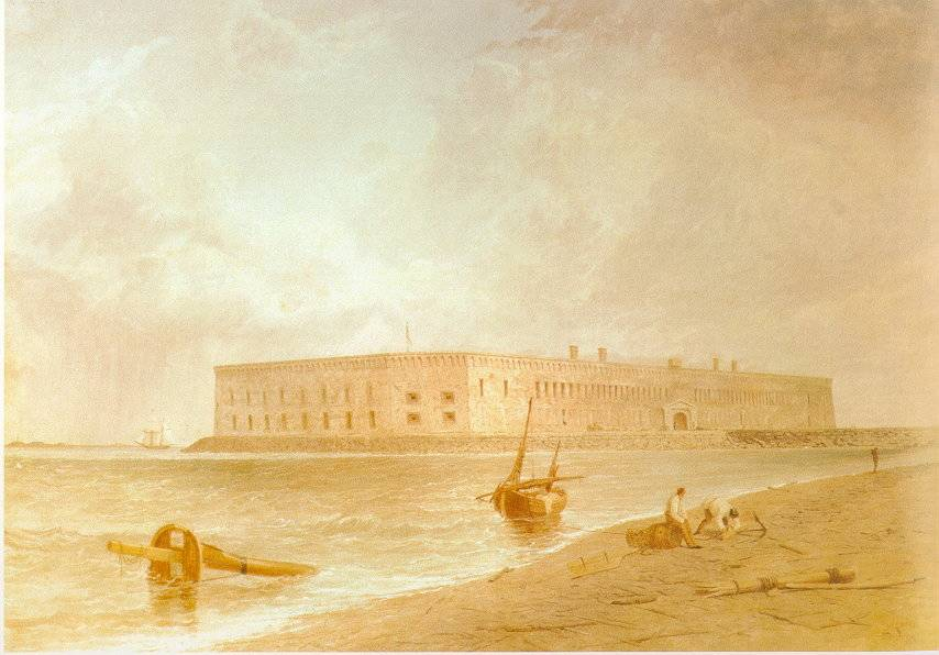 An image of Fort Sumter before the 12-13 April 1861 battle from the direction of Fort Johnson.